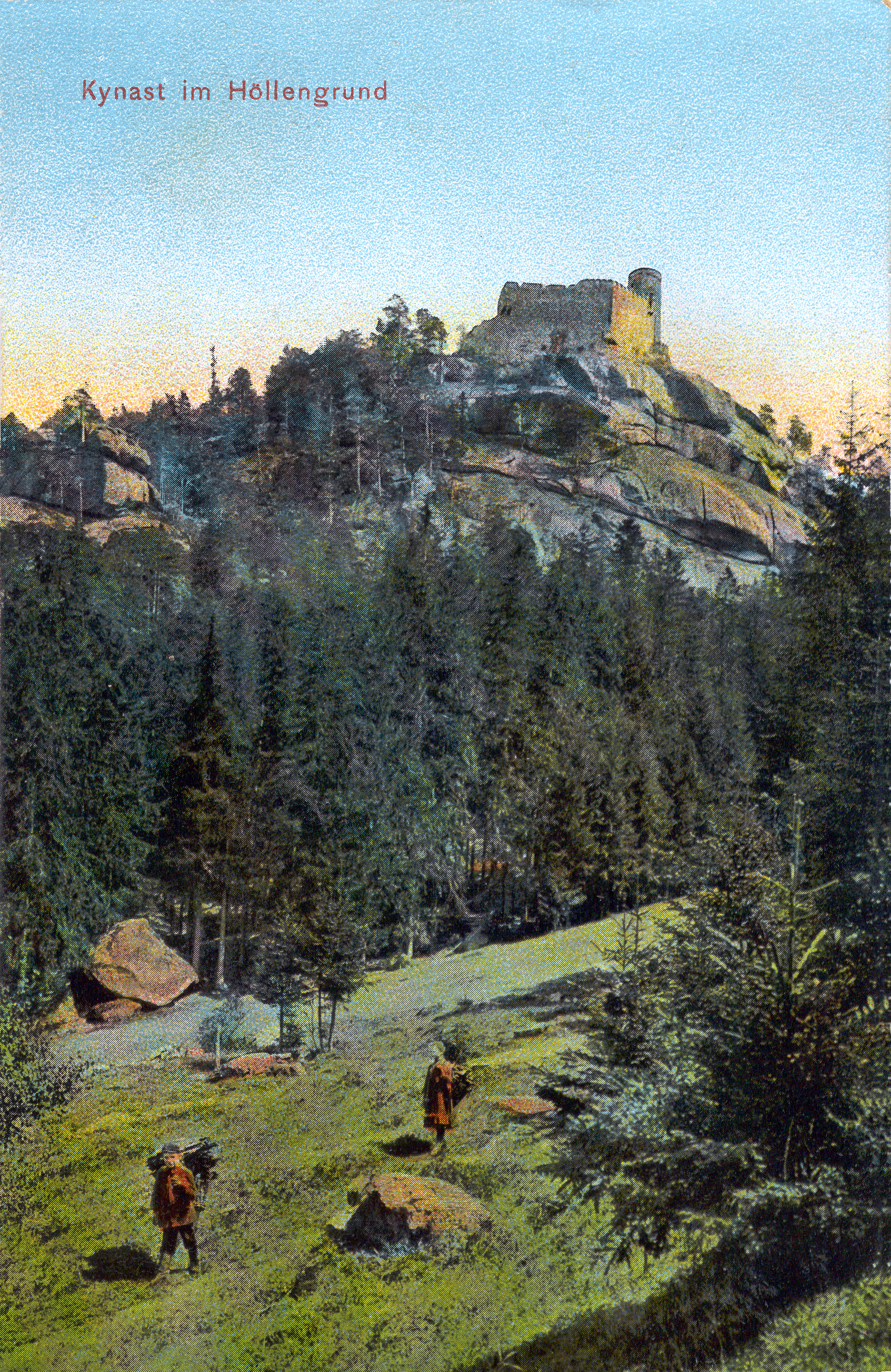 Castle Chojnik.